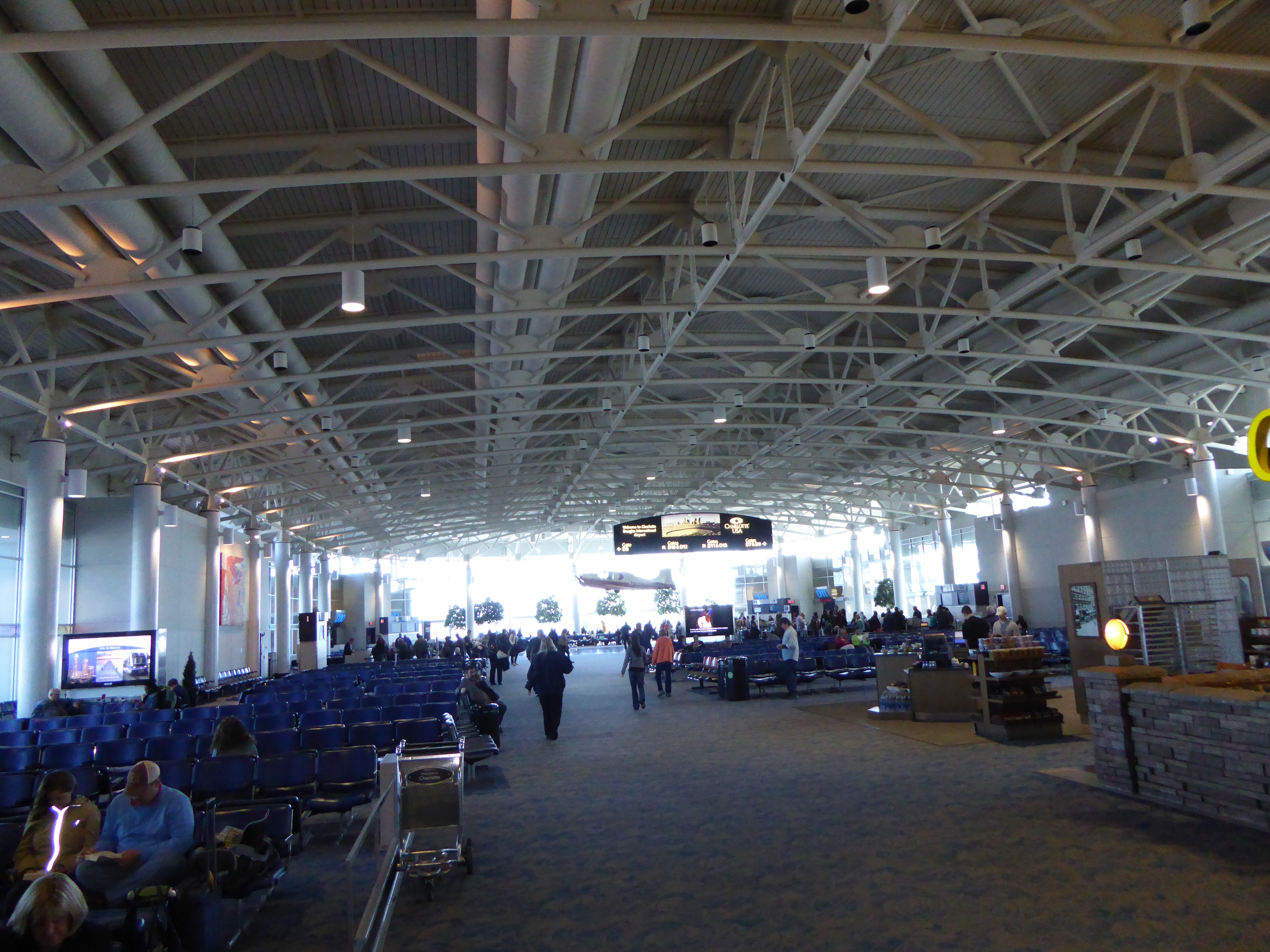 inside